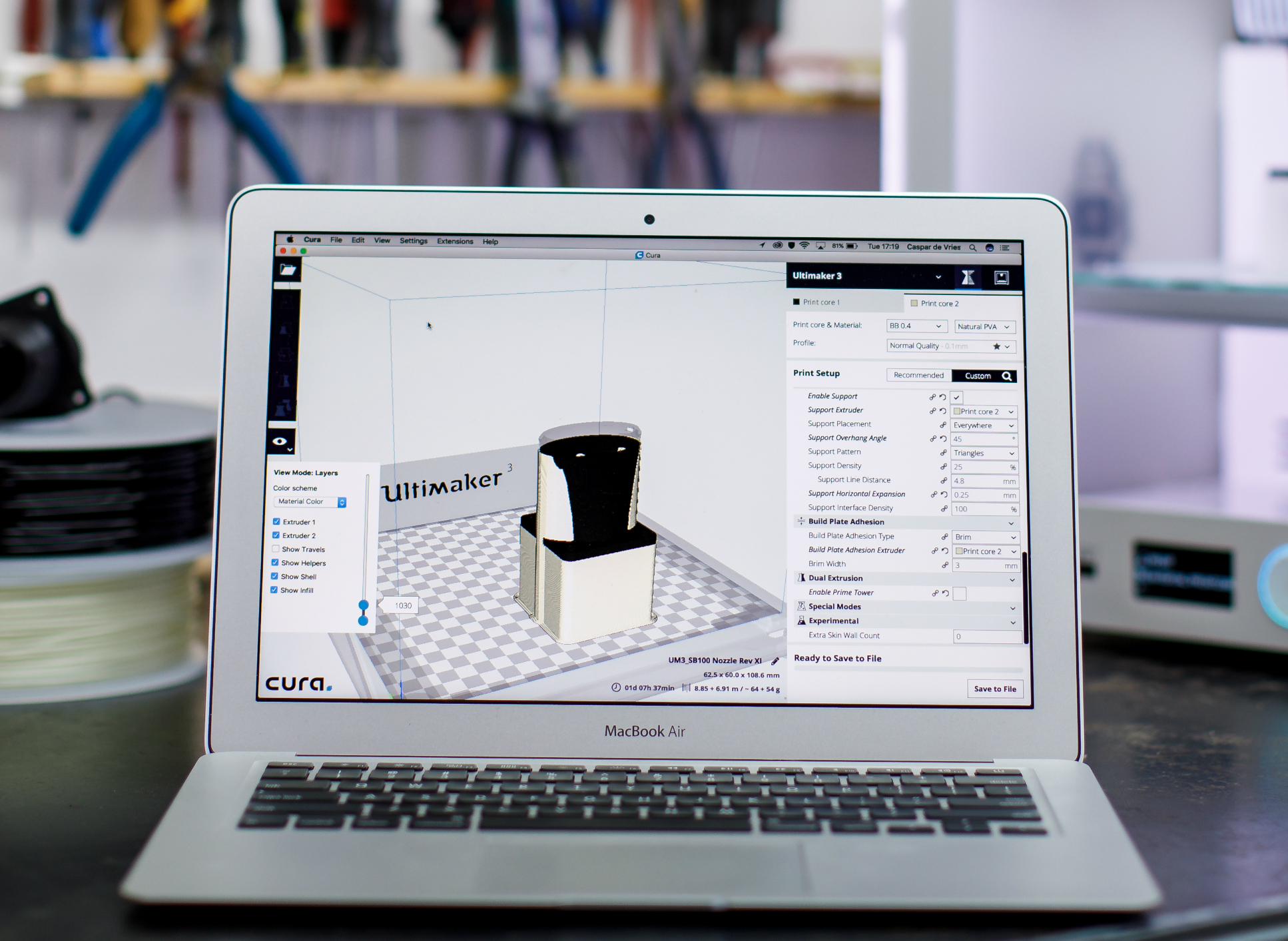 Preparing a model for 3D printing using Ultimaker Cura software.